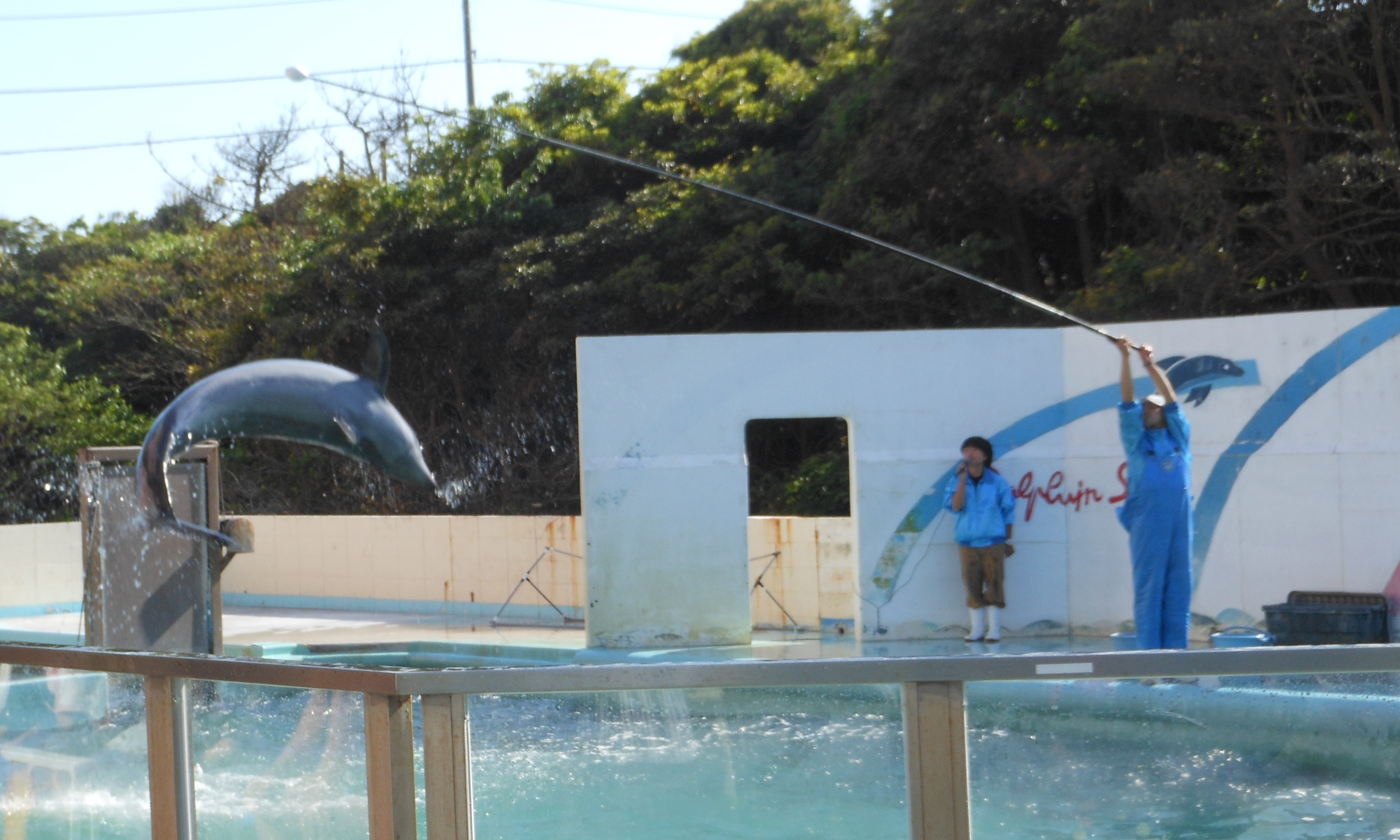 This is one scene of dolphins show in Inubosaki Marine Park, which is located in Choshi, Chiba, Japan.